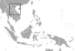 Vietnam Leaf-nosed Bat (Paracoelops megalotis) range